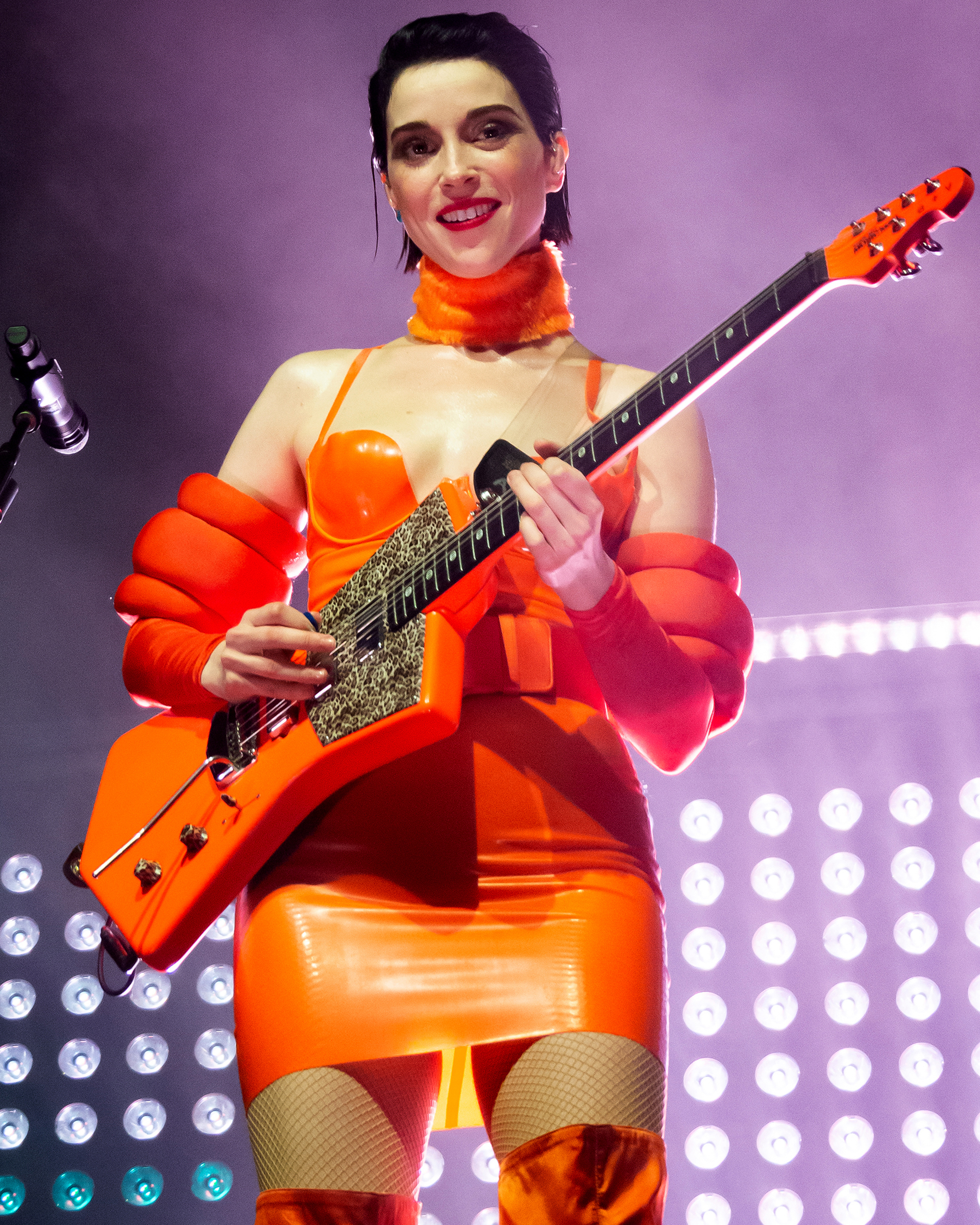 My twenty favorite photo-memories of 2018, prepared for Instagram. Pictured are myself, Dua Lipa, Bishop Briggs, Olivia O'Brien, Alice Merton, Kailee Morgue, Kate Voegele, Meg Myers, St. Vincent (Annie Clark), Echosmith (Sydney Sierota), Elise Trouw, Chvrches (Lauren Mayberry), Cannons (Michelle Joy), The Haunt (AnastasiaMax), Amy Shark, Lisa Ritchie, Ionie, December Fades (Kevin Rogers), Lexie Rose, and Livingmore (Alex Moore & Spencer Livingston).